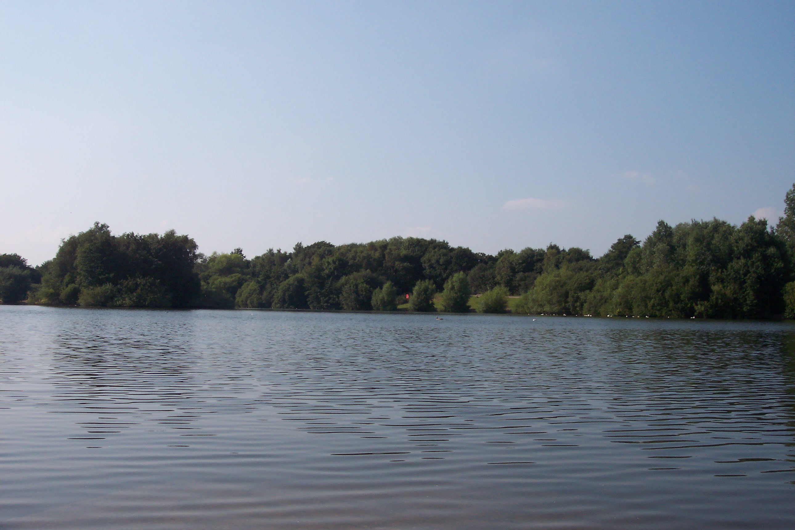 Chorlton Water Park, Manchester, England.